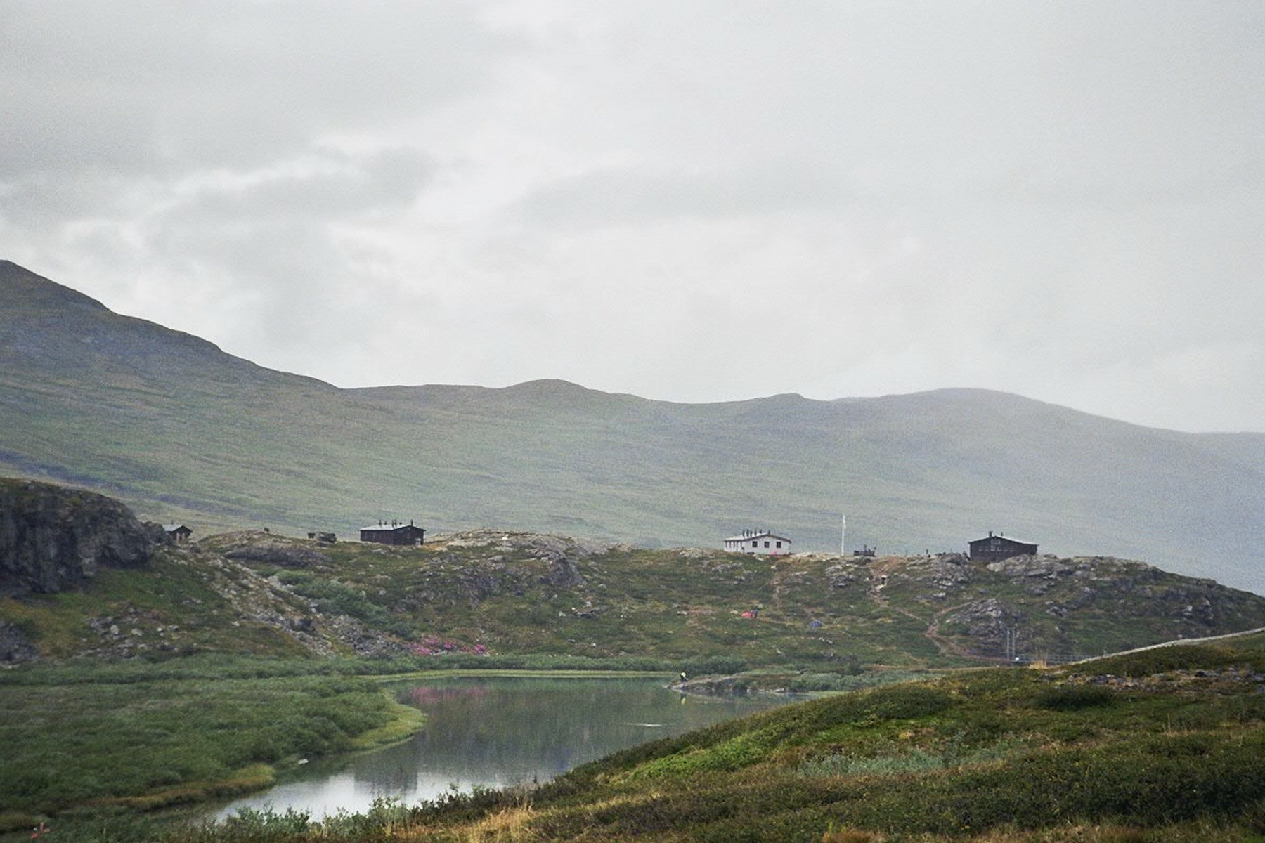 Alesjaurecottages on Kungsleden